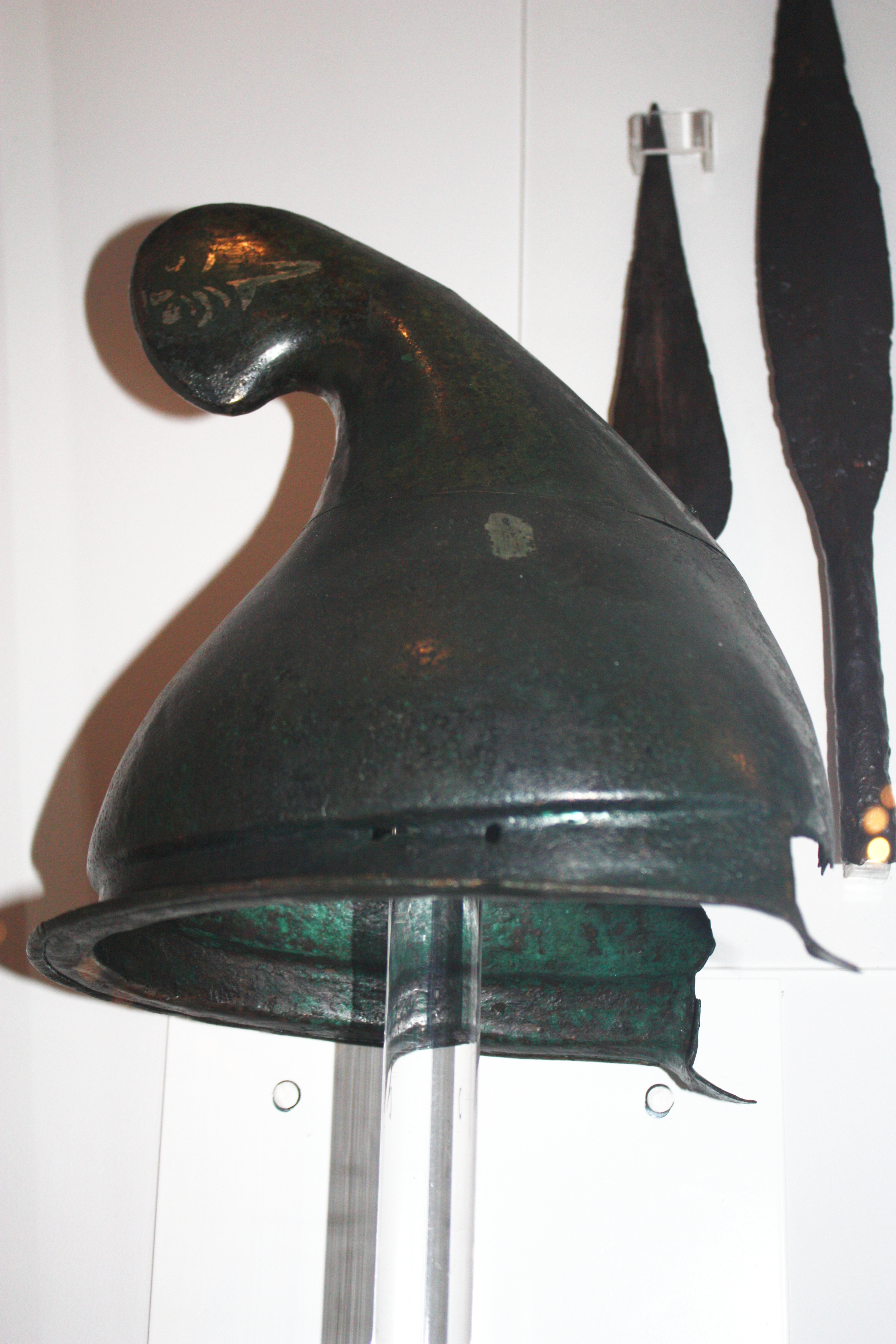 National History Museum, Bulgaria, Sofia, kvartal Bojana